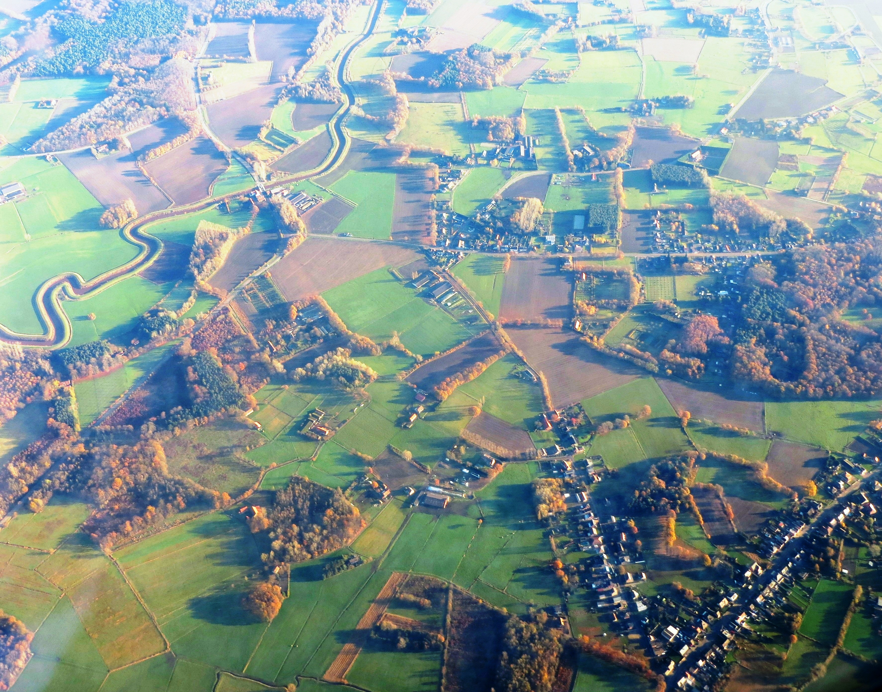 Aerial view from the (south)west towards (north)east, over the Hageland region, in southeastern Antwerpen province - north Belgium.